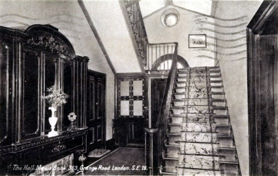 The Hall, Mavis Bank, 353 Grange Road, Upper Norwood